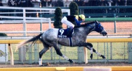 Kurofune, takes a picture in Tokyo Racecourse